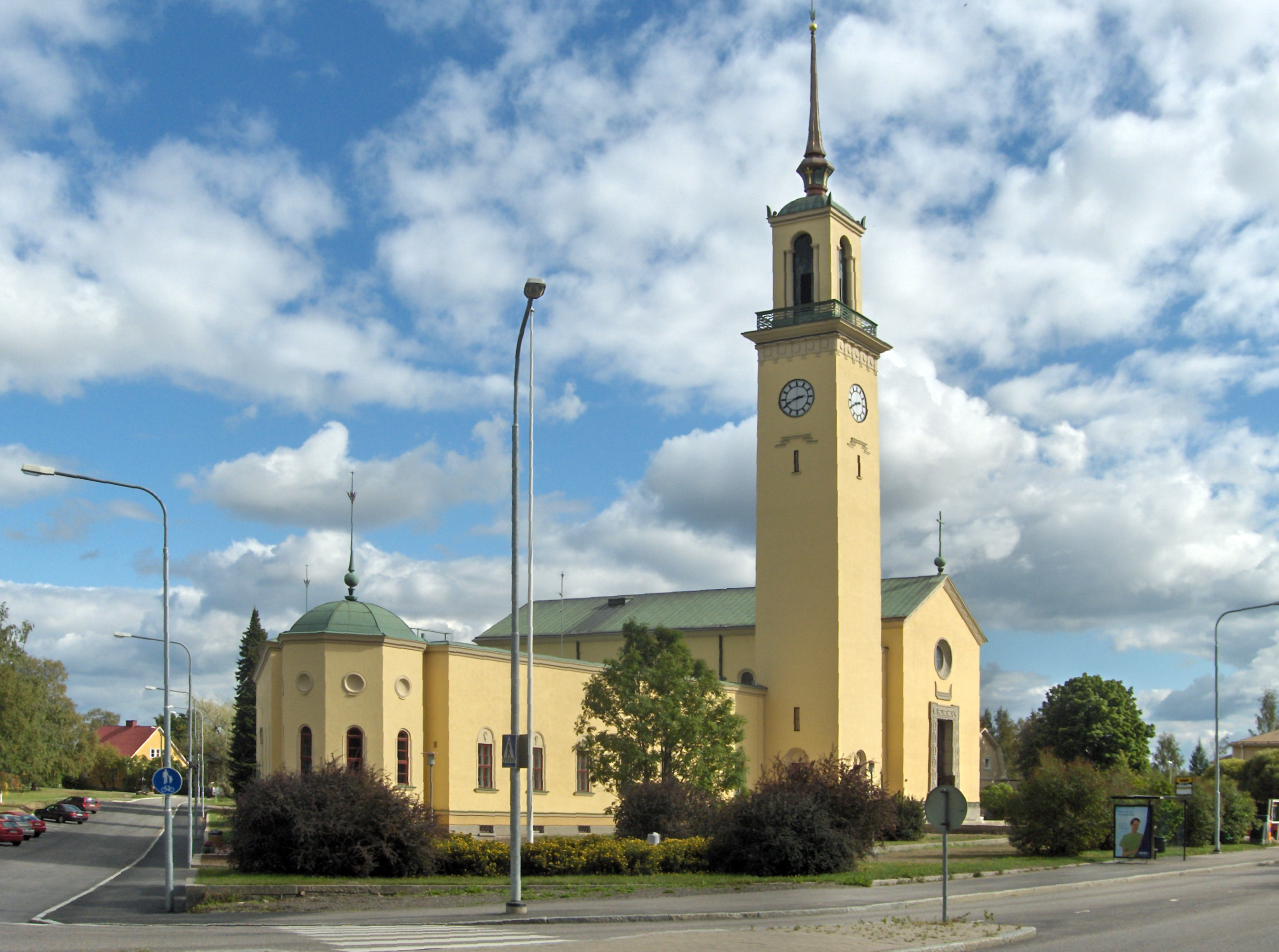 Viinikka church in Tampere, Finland.